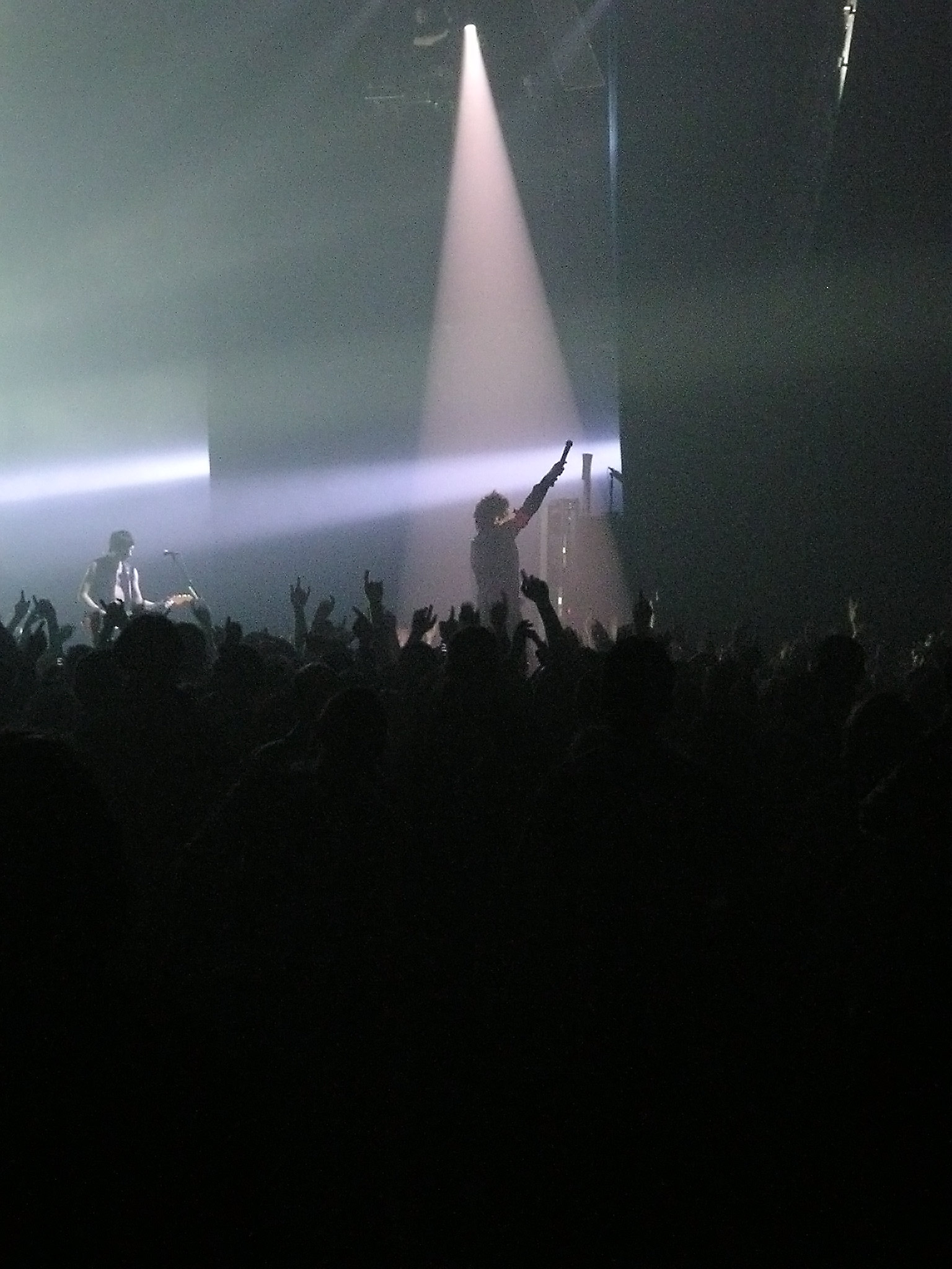 Concert of Indochine band during Alice & June Tour